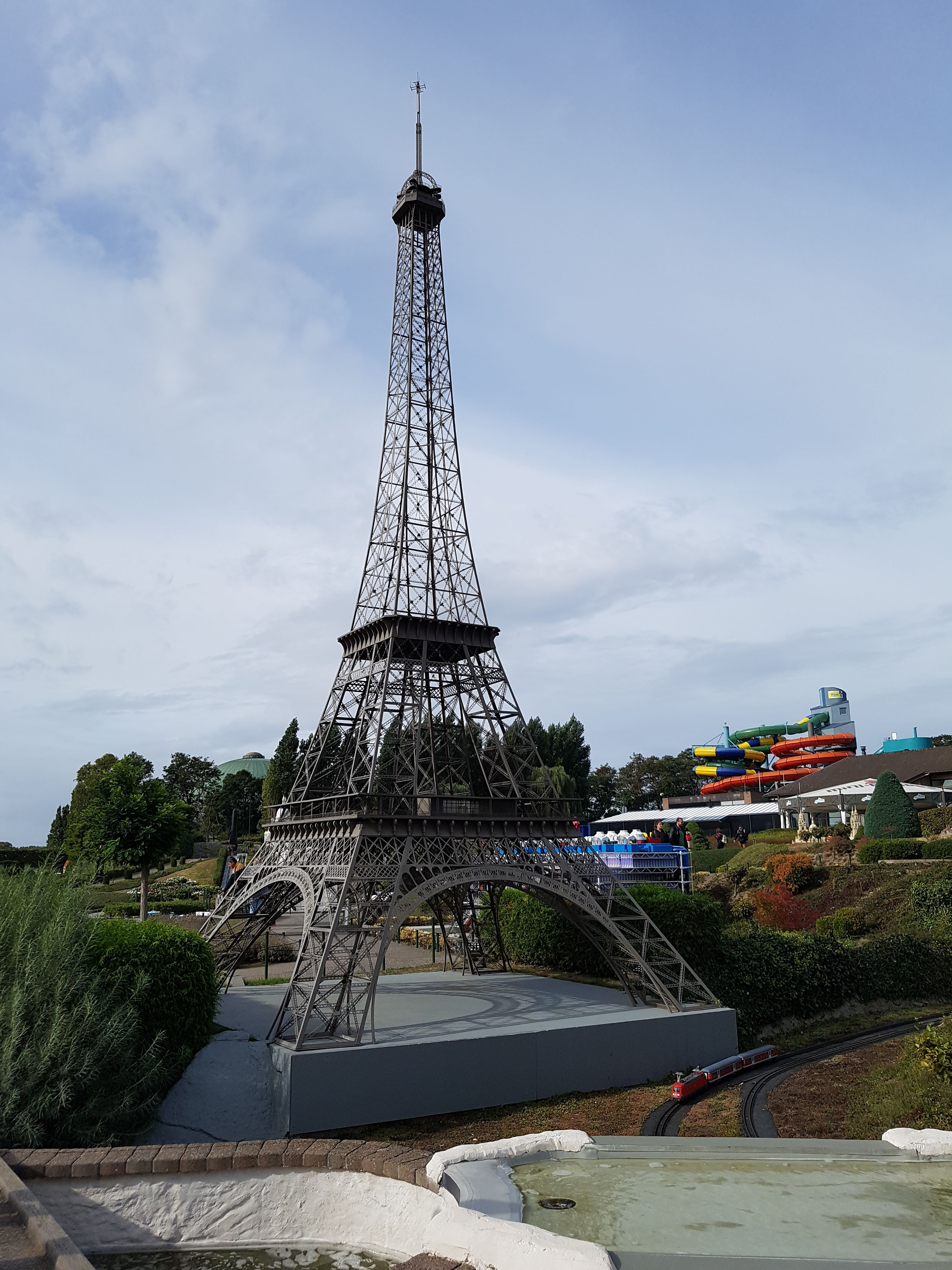 Eiffel Tower of Paris at Mini Europe